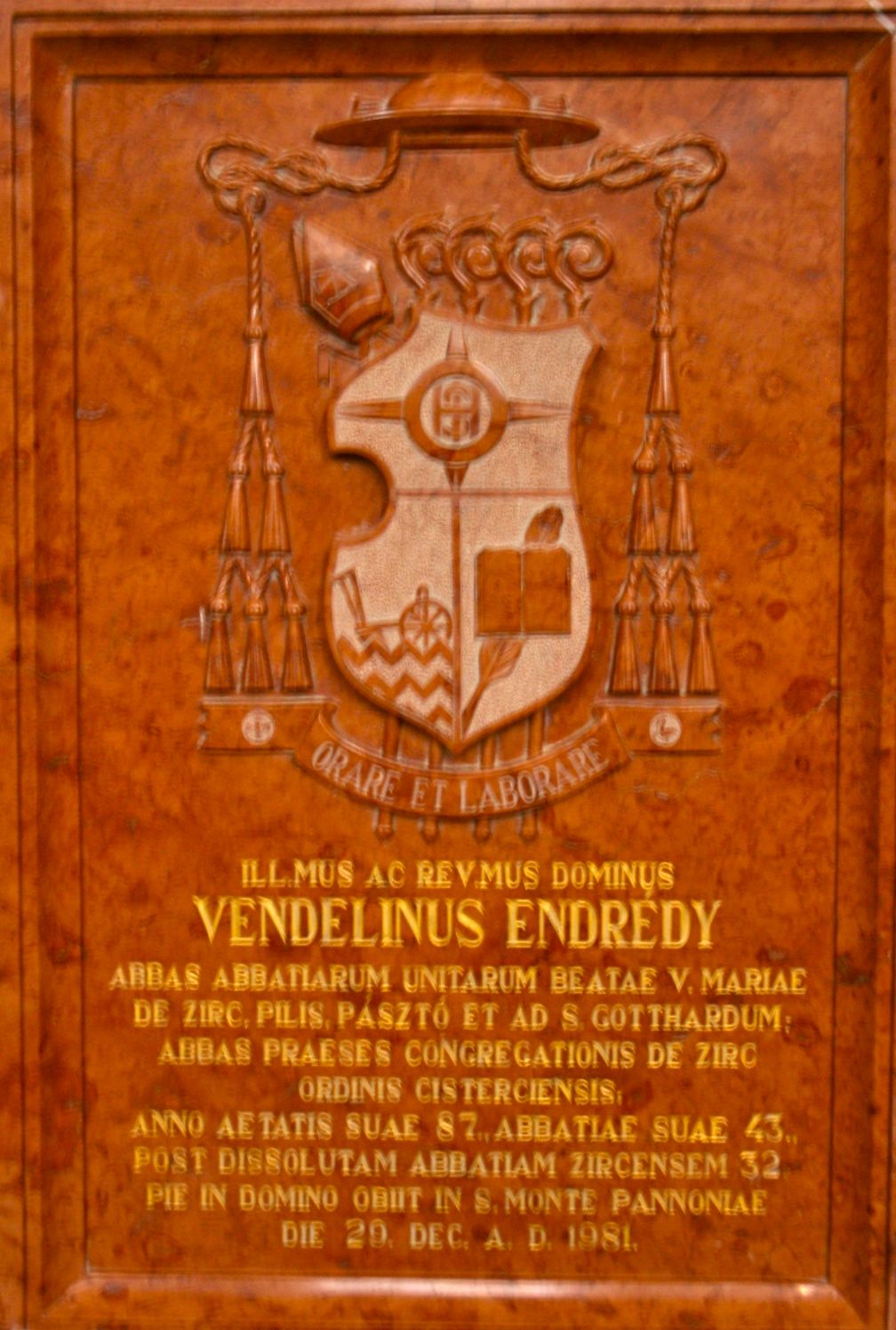 Abbot Endredy commemorative plaque in Zirc Abbey Church.